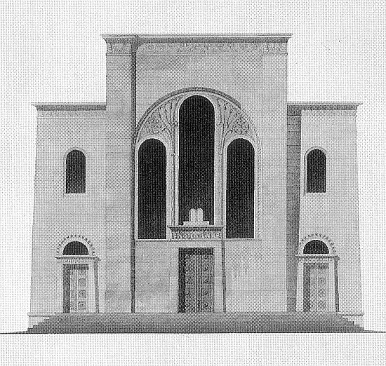 synagoge kassel bromeis